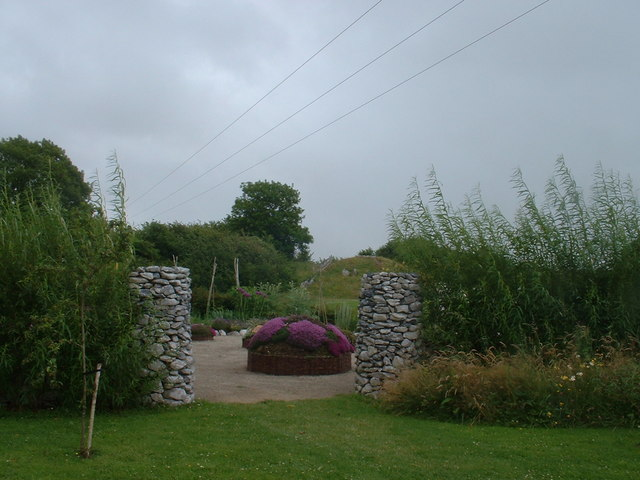 Brigit's Garden. A themed garden reflecting Celtic festivals